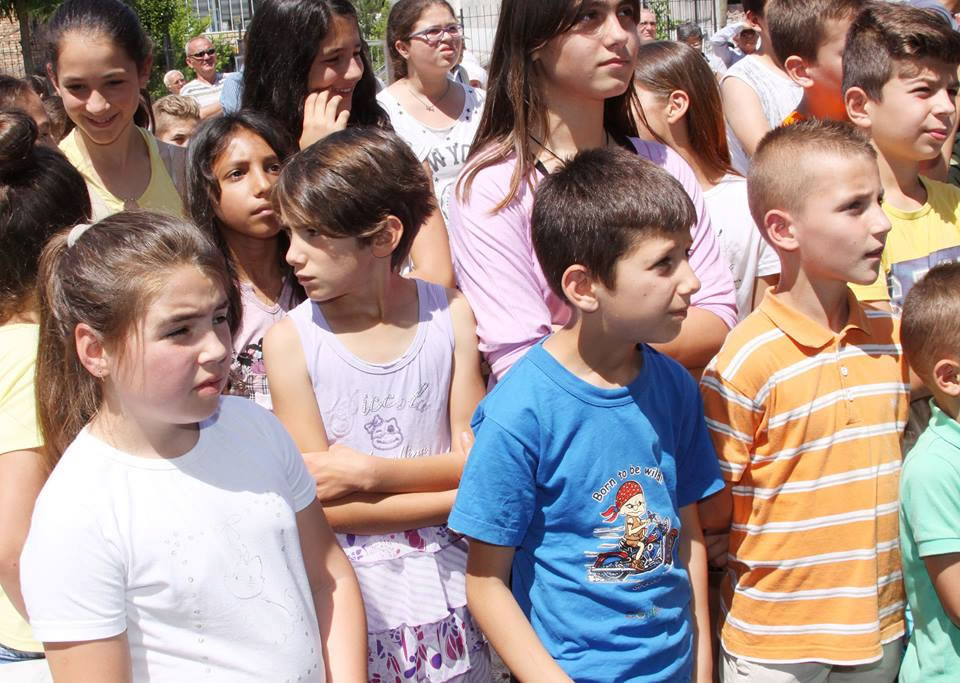 U.S. and Albanian leaders join students, faculty and parents June 11 for the official reopening of “28 Nentori,” a local nine-year school in Kucove, Albania. U.S. Army Corps of Engineers Europe District managed a $575,000 renovation in support of U.S. Embassy Tirana’s Office of Defense Cooperation and U.S. European Command’s humanitarian-assistance program. Nearly 600 children ages 6-15 attend the school, which was built in 1964 and had never been fully renovated. Kucove Mayor Bardhyl Gjyzeli, school director Mjaftoni Dhimitri and Navy Cmdr. Ralph Shield, the American Embassy’s defense attaché, were among the top U.S. and Albanian representatives at the dedication. To read more about the project and ribbon-cutting ceremony, click here: . (Courtesy of U.S. Embassy Tirana)